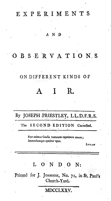 Title page to Joseph Priestley's Experiments and Observations on Air